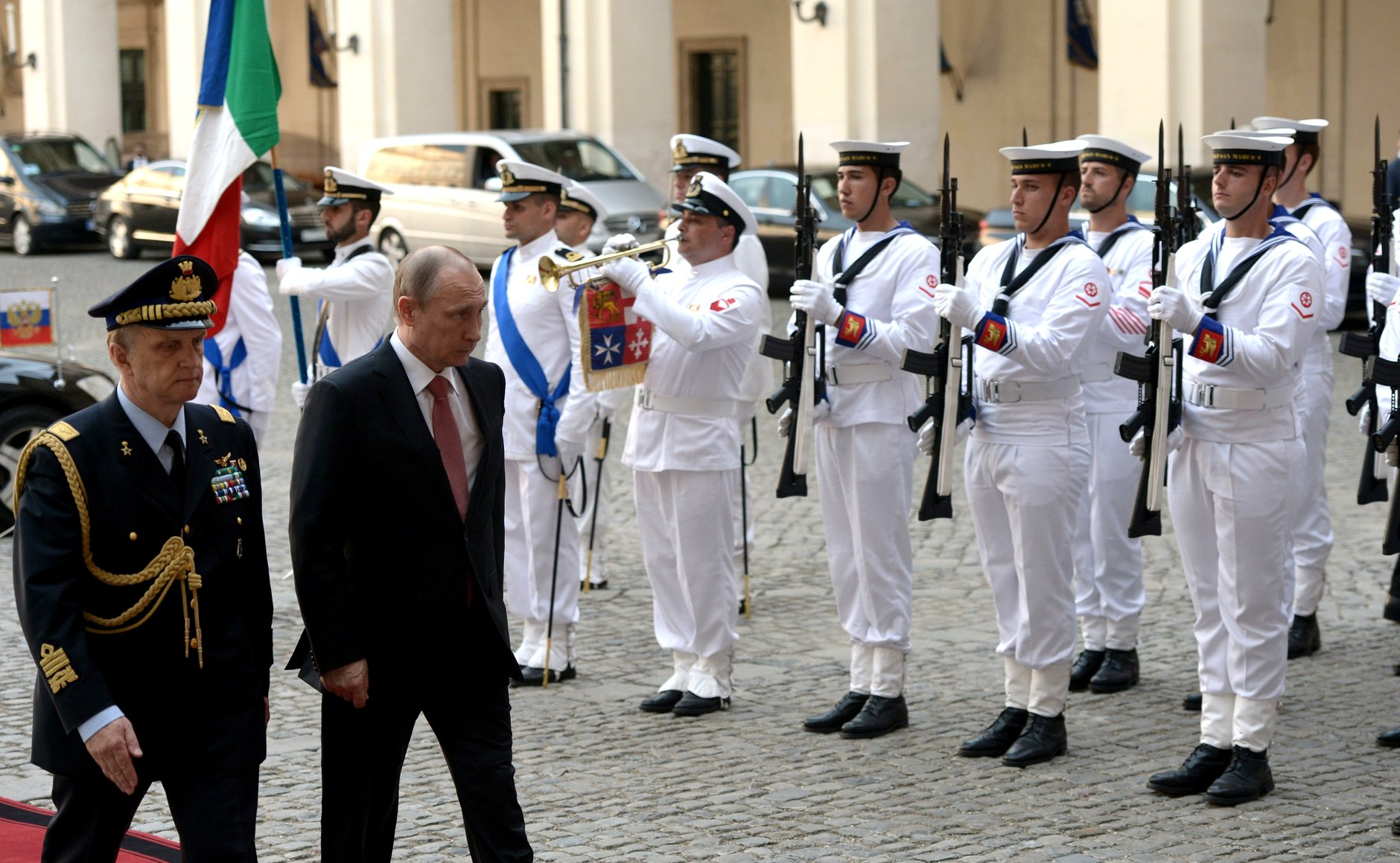 Russian President Vladimir Putin's meeting with Italian President Sergio Mattarella